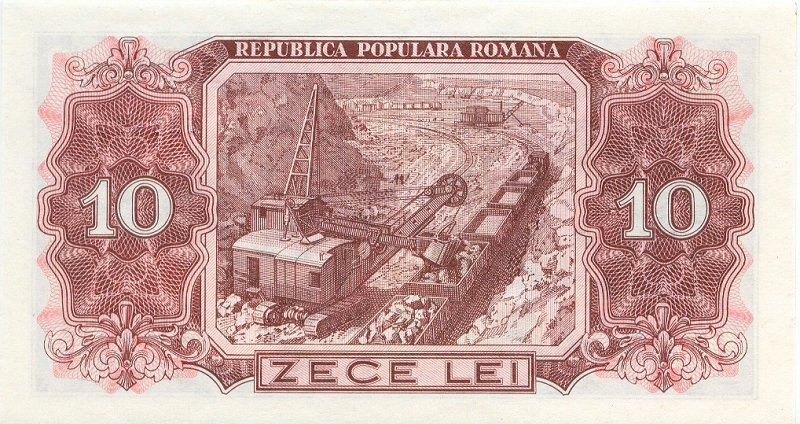 10 Romanian leu from 1952 - reverse